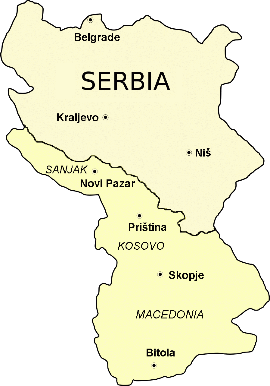 Territorial expansion of the Kingdom of Serbia to Sandžak, Kosovo and Macedonia, following the Balkan Wars in 1913.